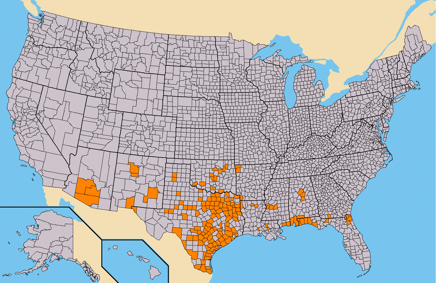 U.S. counties in which Whataburger Restaurants operate. Information from official Whataburger Website.